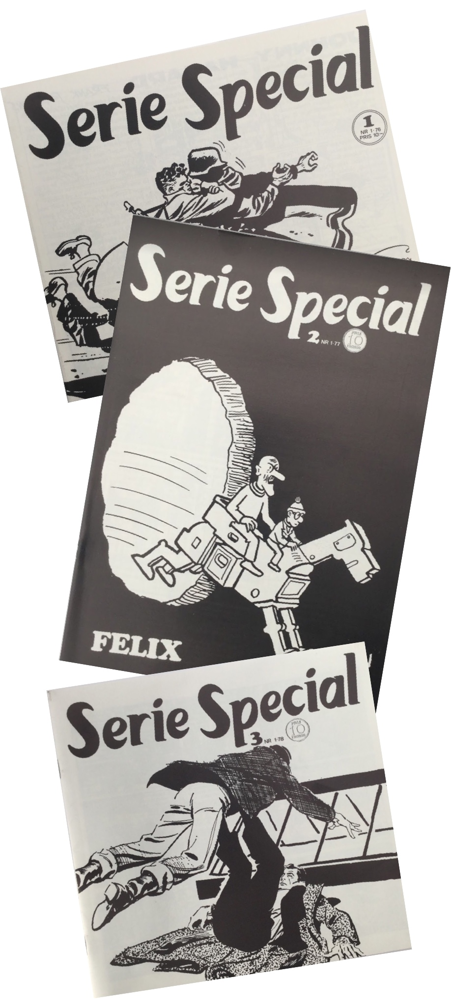 Comic book covers of the SerieSpecial comic book